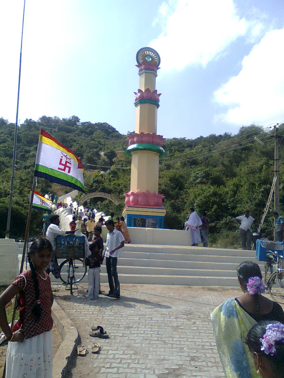 DHAMACHAKARAM IN PONNUR MALAI JAIN TEMPLE